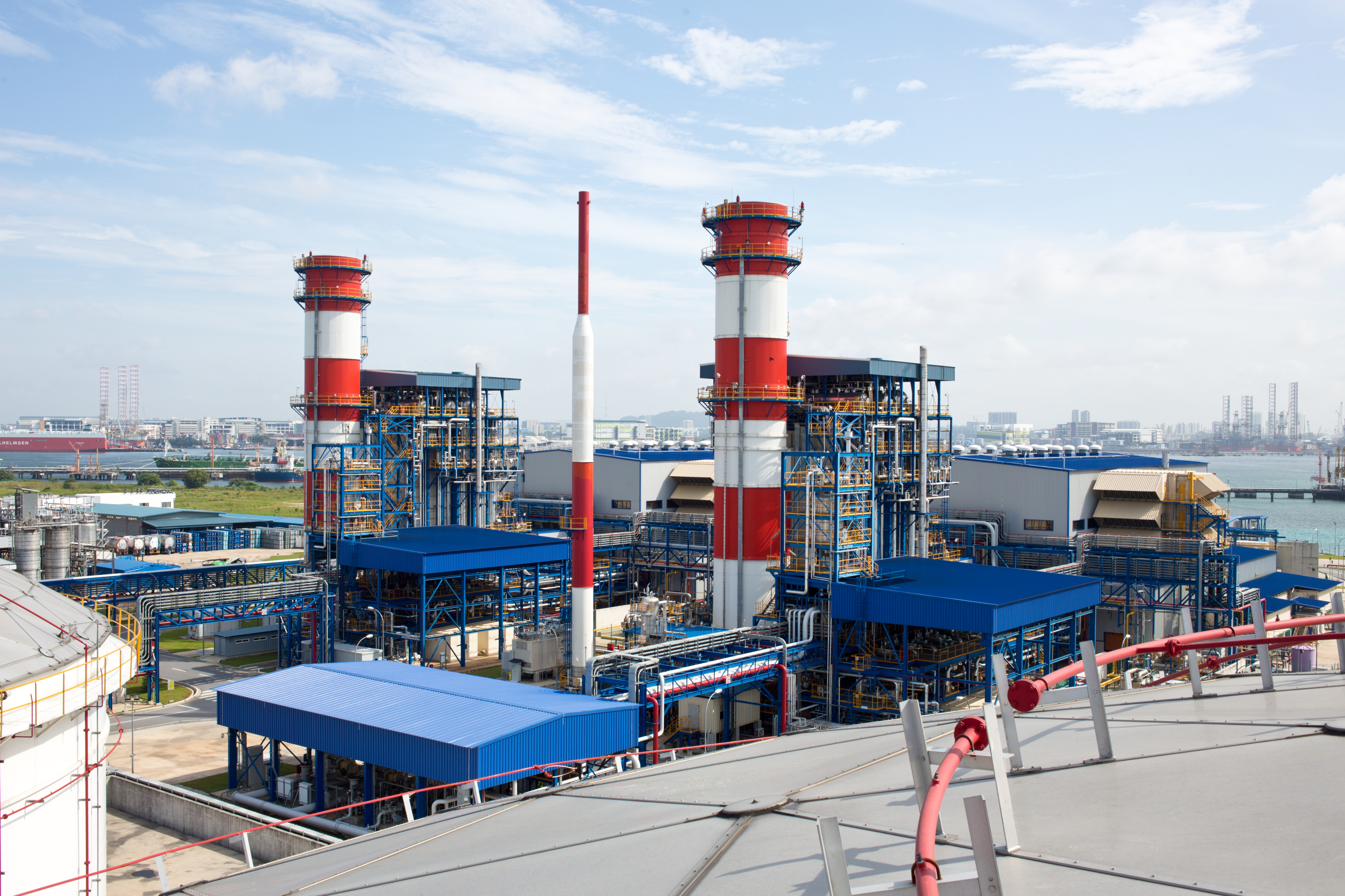 Picture of PLP power plant Unit 10 and 20